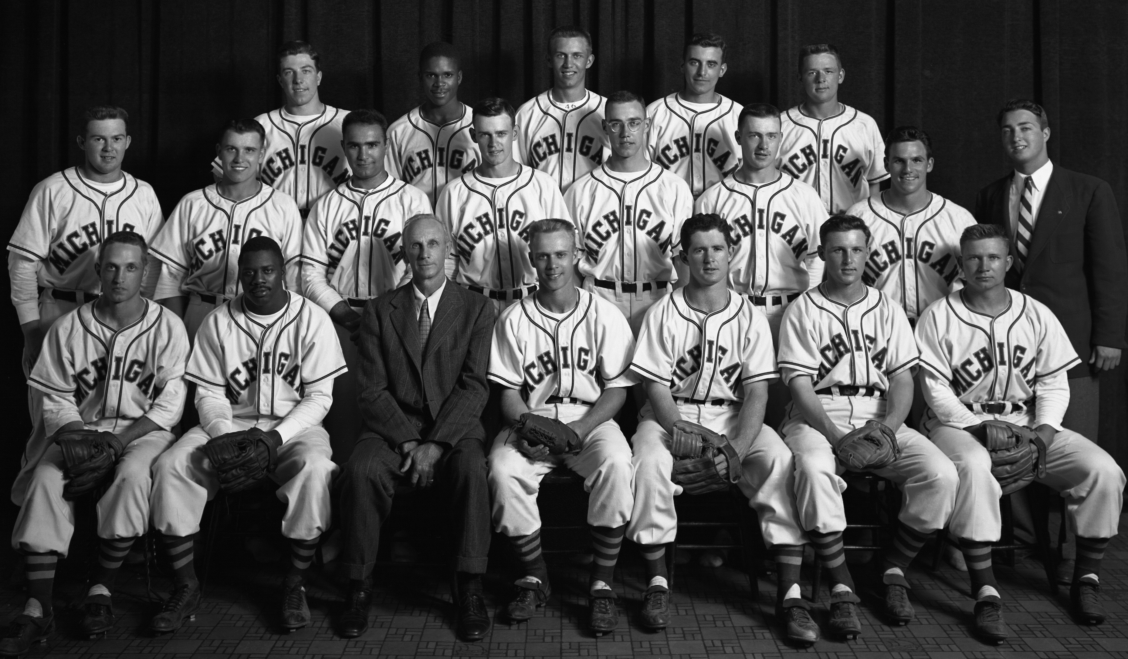 1953 University of Michigan baseball team (national champions)Back row: Daniel Cline, Donald Eaddy, Marvin Wisnewski, Ray Pavichevich Paul LepleyMiddle row: Jack Ritter, Richard Leach, Garabed Tadian, Paul Fancher, Robert Woschitz, Jack Corbett, Richard Yirkosky, Robert Margolin (manager)Front row: Bruce Haynam, Frank Howell, Ray Fisher (coach), Bill Mogk (captain), Gerald Harrington, Gil Sabuco, Bill Billings